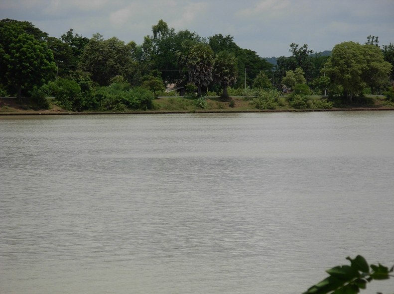 ทะเลเมืองต่ำ